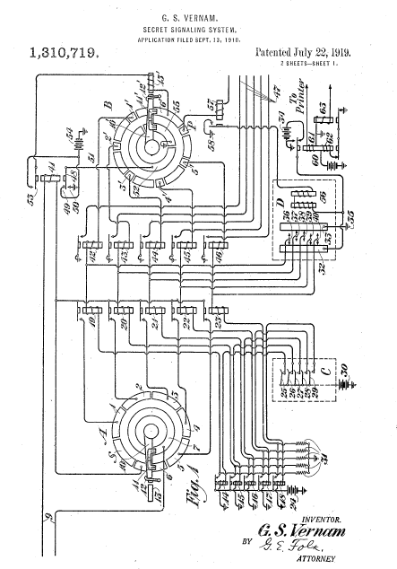 Vernam cipher patent, Figure 1. This drawing shows Gilbert Vernam's original concept for a teletype encryption machine that combines plaintext characters (C) with characters on a key paper tape (D) using an XOR function. The XOR takes place at relays 19 through 25. If both the C and D contacts are open, no voltage is applied to the relay coil. If both C and D contacts are closed, voltage is applied to both ends of the relay coil, so the relay contacts stay open. If just one of contacts C and D are closed, current flows through the relay coil, closing its contact.